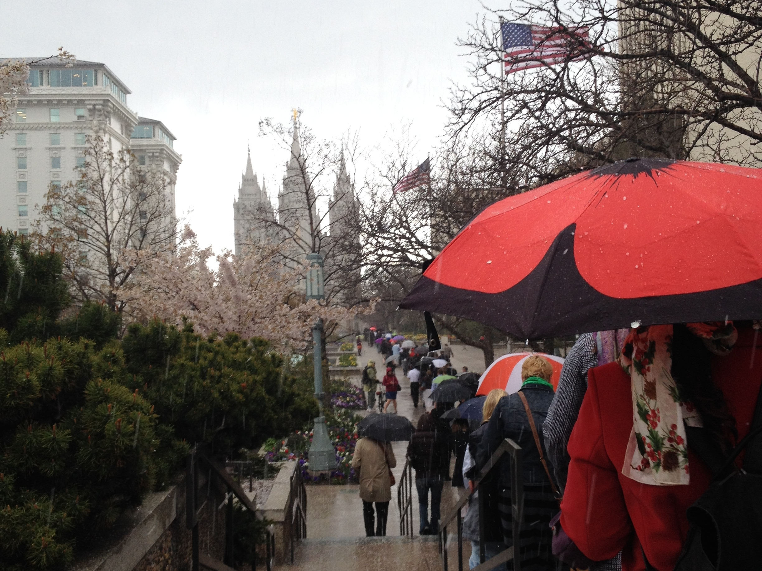 Photo taken from the end of the line of over 500 men and women approaching Temple Square (in a hail storm) to ask for admittance to the LDS General Conference Priesthood Session.